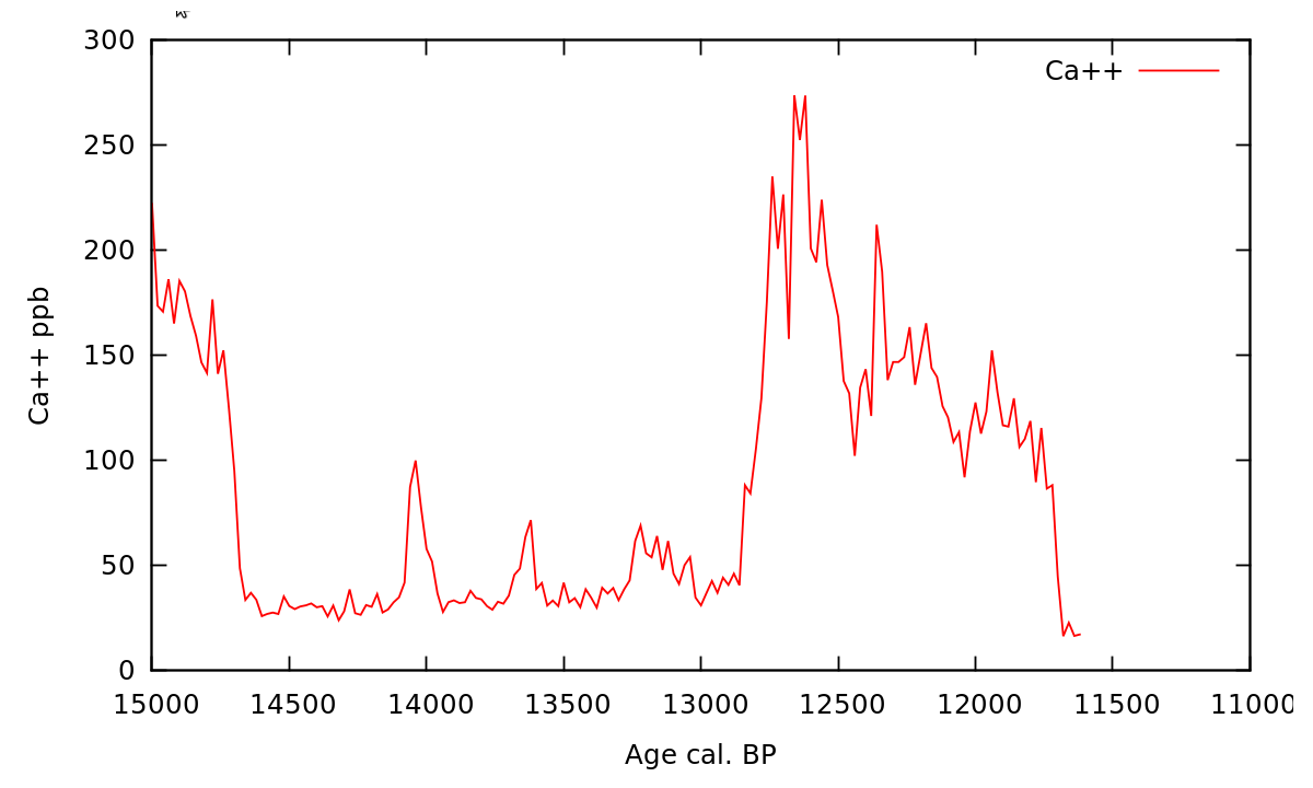 NGRIP late Glacial calcium ion data. This time spans to Bölling via Alleröd to Younger dryas. Original data source is file "Calcium concentration and d18O isotope ratios from the Greenland NGRIP, GRIP, and GISP2 ice cores on the GICC05 time scale." "Synchronization of the NGRIP, GRIP, and GISP2 ice cores across MIS 2 and palaeoclimatic implications S.O. Rasmussen, I.K. Seierstad, K.K. Andersen, M. Bigler, D. Dahl-Jensen, and S.J. Johnsen Quaternary Science Reviews, vol. 27, p. 18-28, 2008" The data was processed then with Calc and Gedit, and plotted with gnuplot.